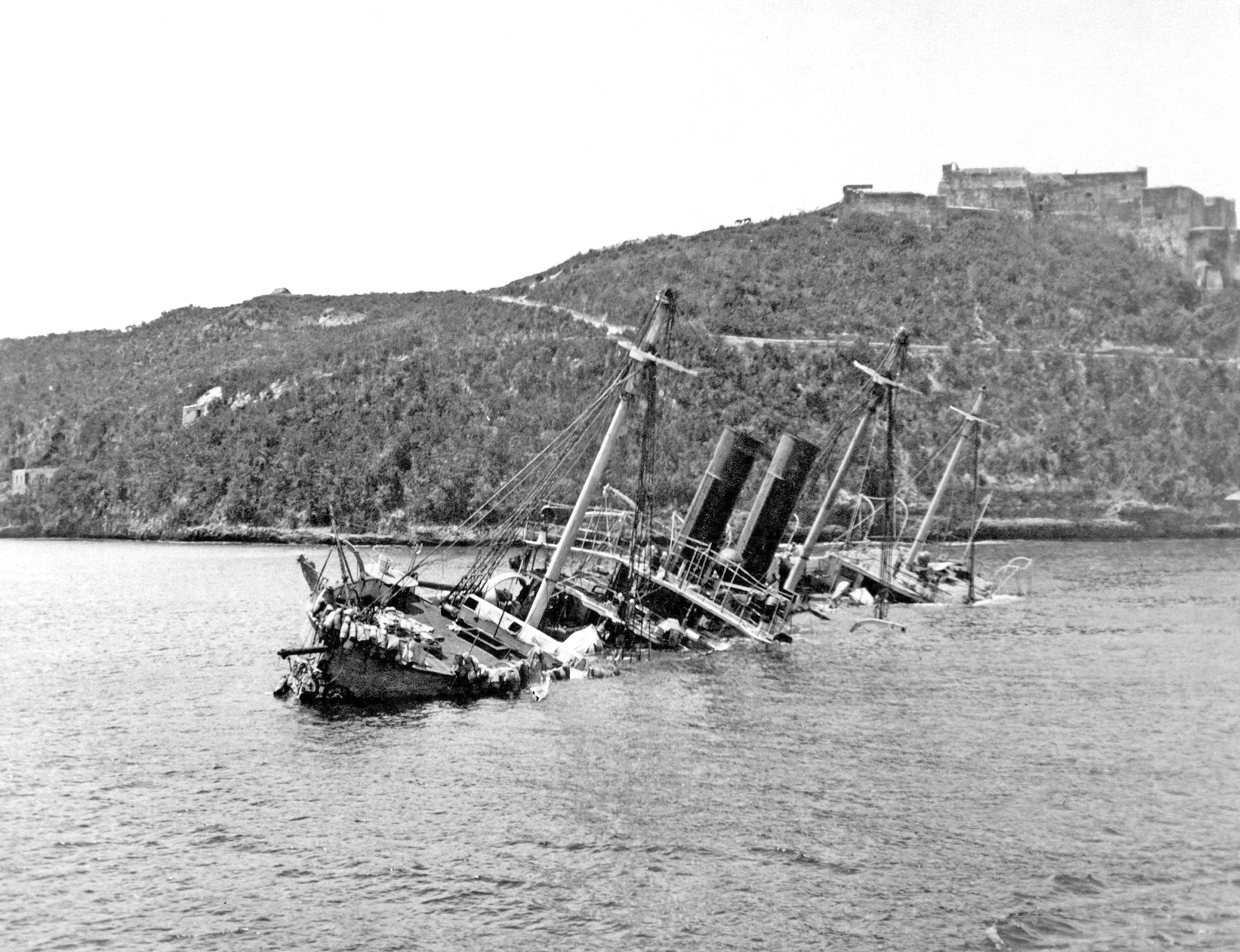 "Wreck of the Spanish Reina Mercedes, Santiago, Cuba. Ca. 1898." HD-SN-99-01947. Resized version of the original downloaded from the source listed.